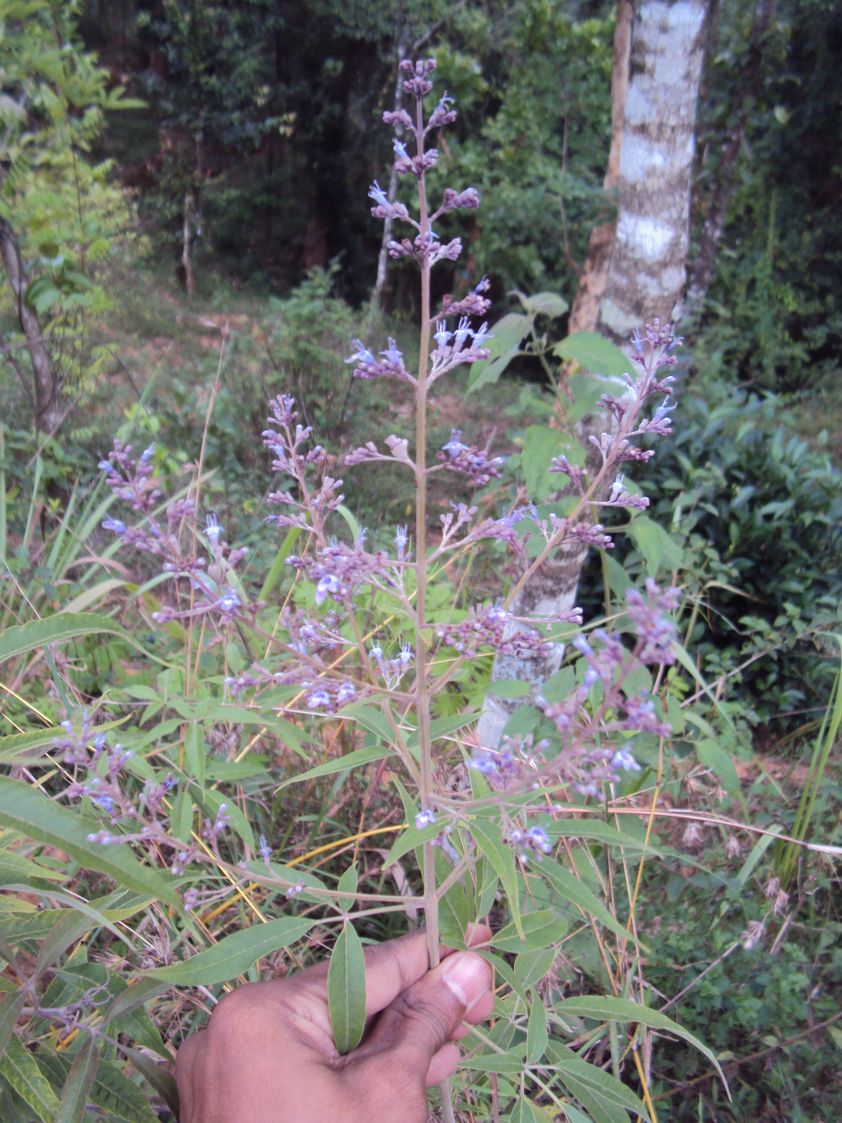 Vitex negundo